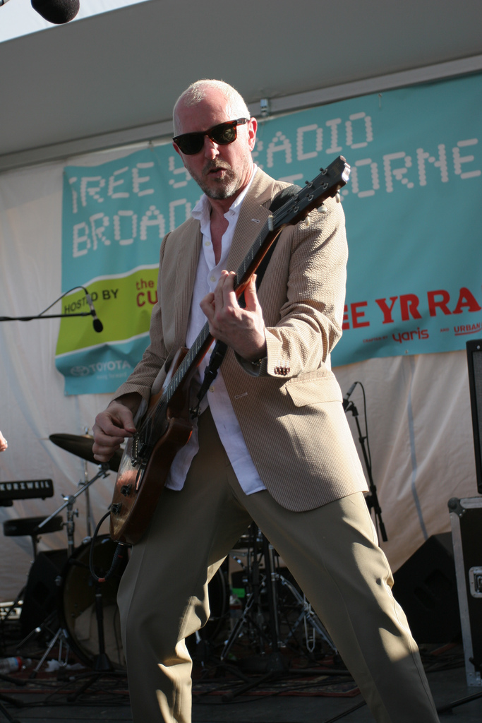 Tony James (Carbon/Silicon) on SXSW08